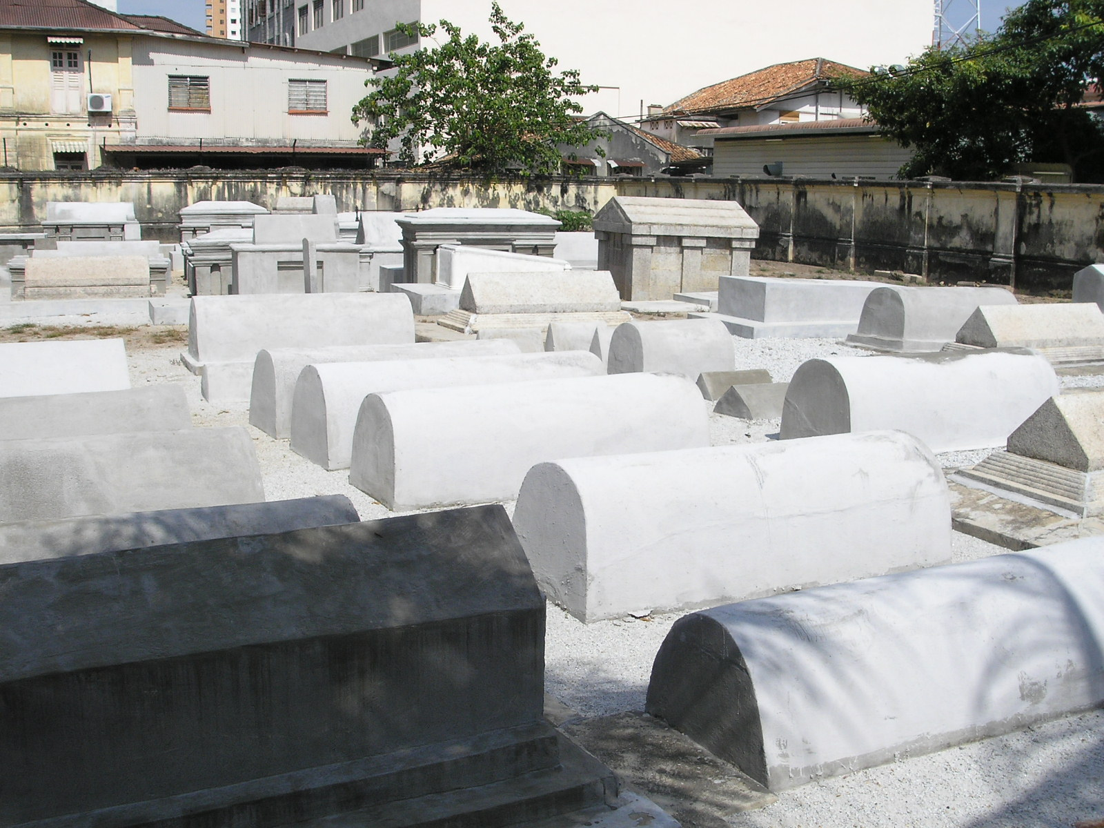 Image of the Jewish Cemetery in George Town, Penang. It is one of the oldest Jewish cemeteries in the Asian region.